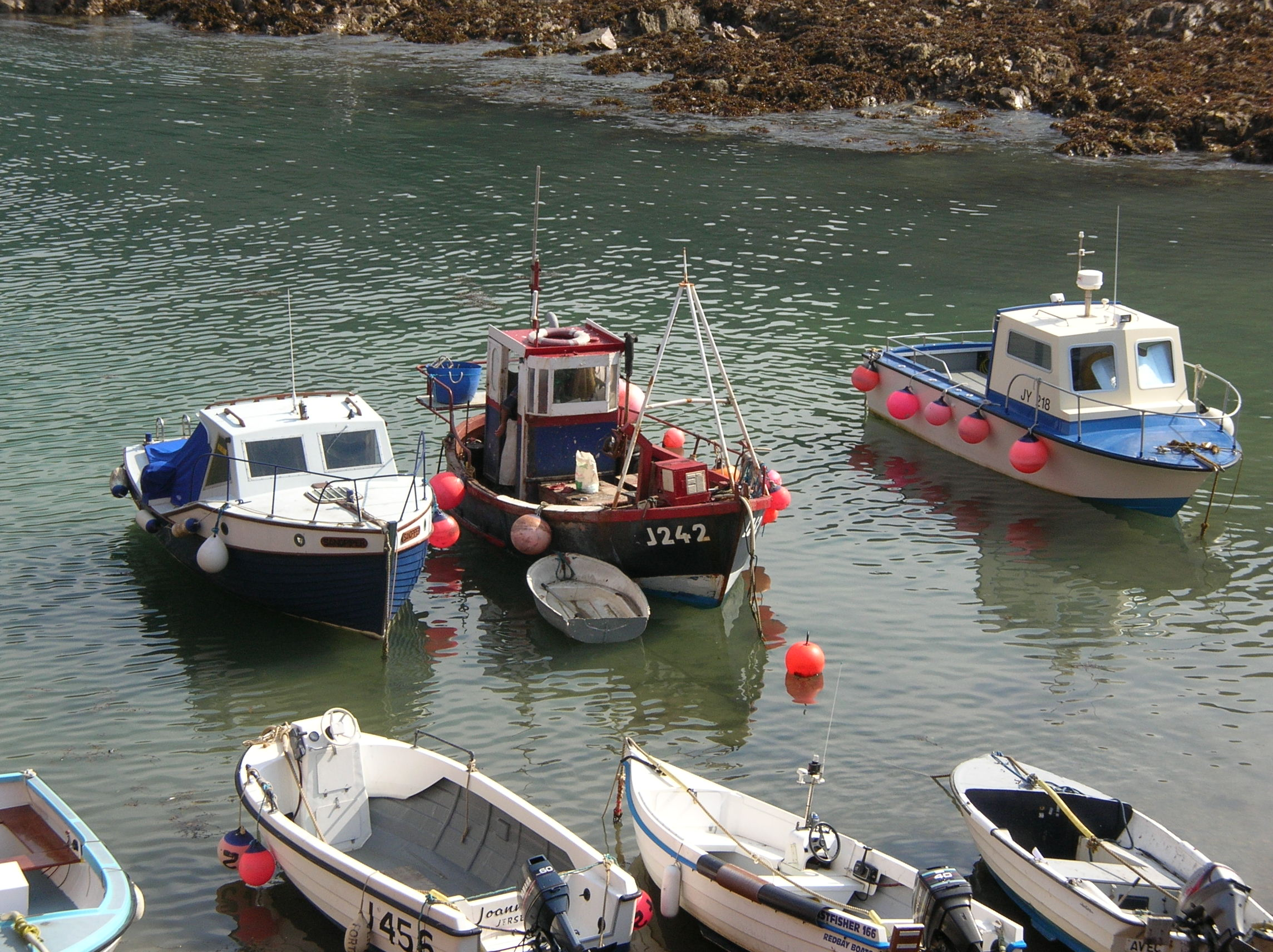 Fishing boats (commercial and pleasure) in harbour at Bonne Nuit in Jersey